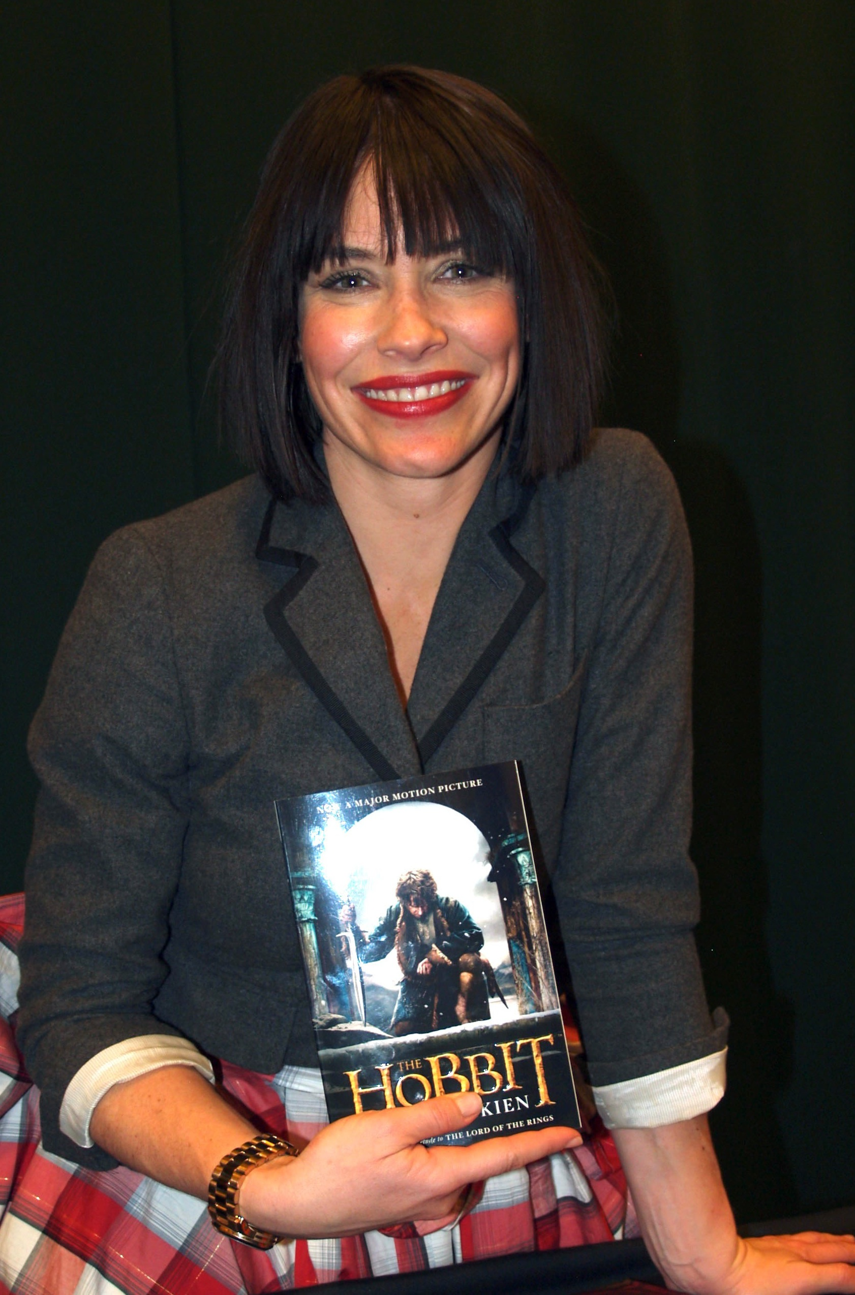 Actress Evangeline Lilly at the Barnes & Noble in Tribeca, Manhattan for a November 17, 2014 signing of the first volume of her children's book, The Squickerwonkers. In the photo, Lilly is holding a copy of J.R.R. Tolkien's novel, The Hobbit. Lilly, who became a fan of Tolkien when she was a teenager, plays Tauriel in the feature film adaptation of The Hobbit. This photo was created by Luigi Novi. It is not in the public domain, and use of this file outside of the licensing terms is a copyright violation.